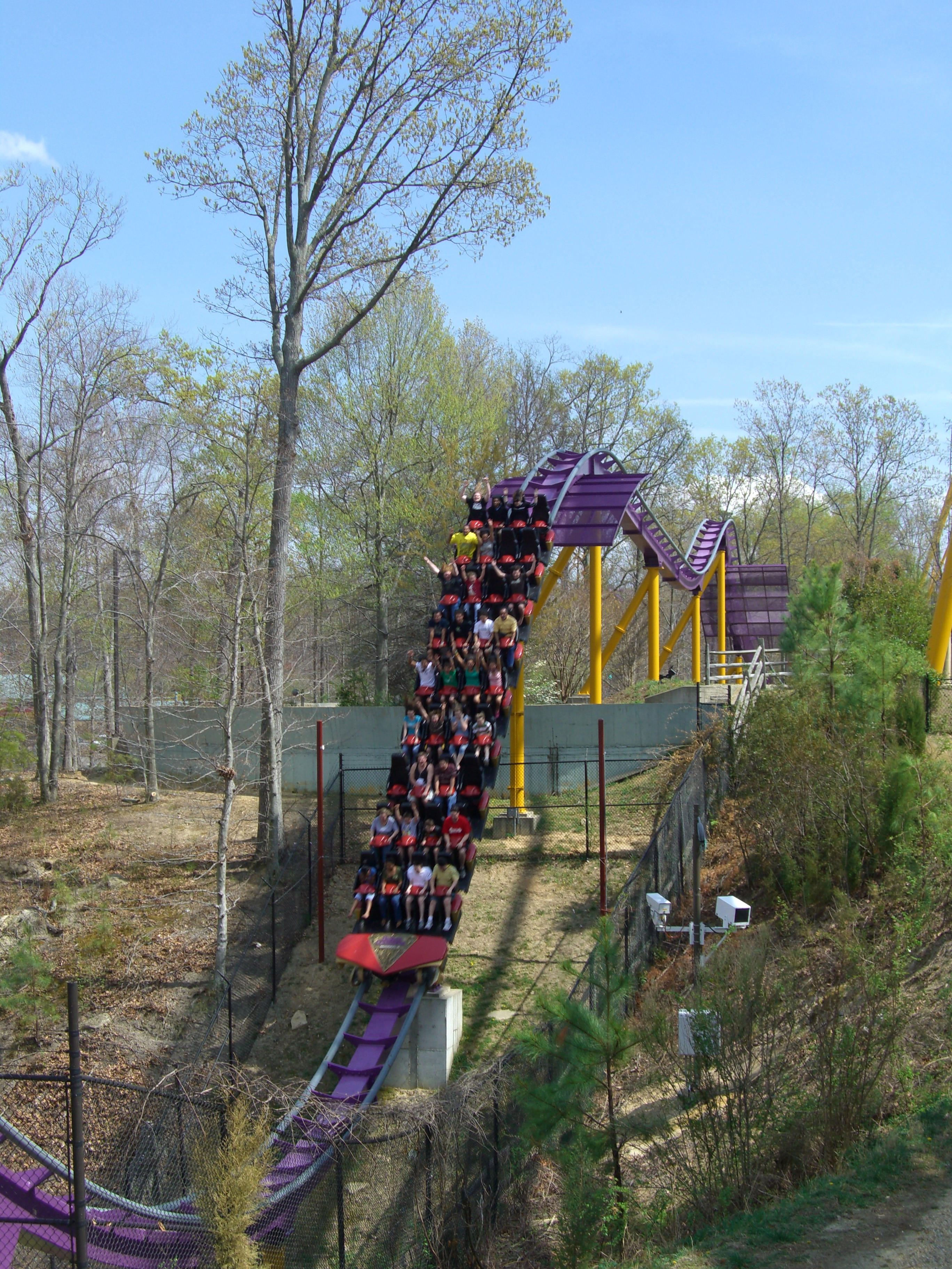 Apollo's Chariot's final drop at Busch Gardens Europe.